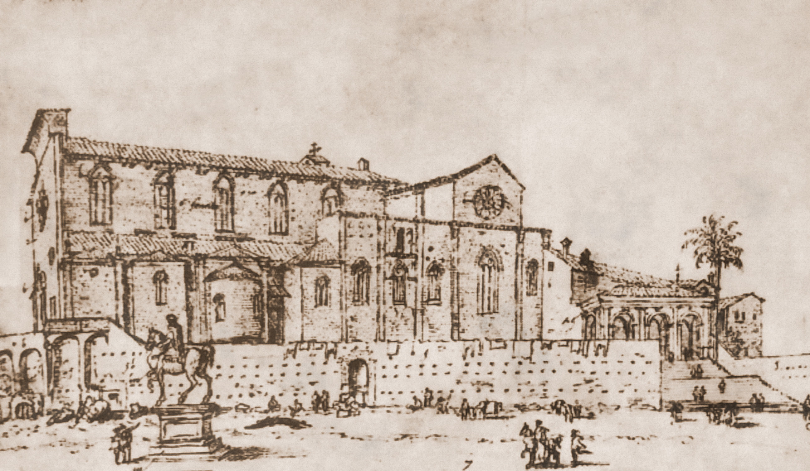 Santa Maria in Aracoeli (Rome); Drawing anonymous 1561